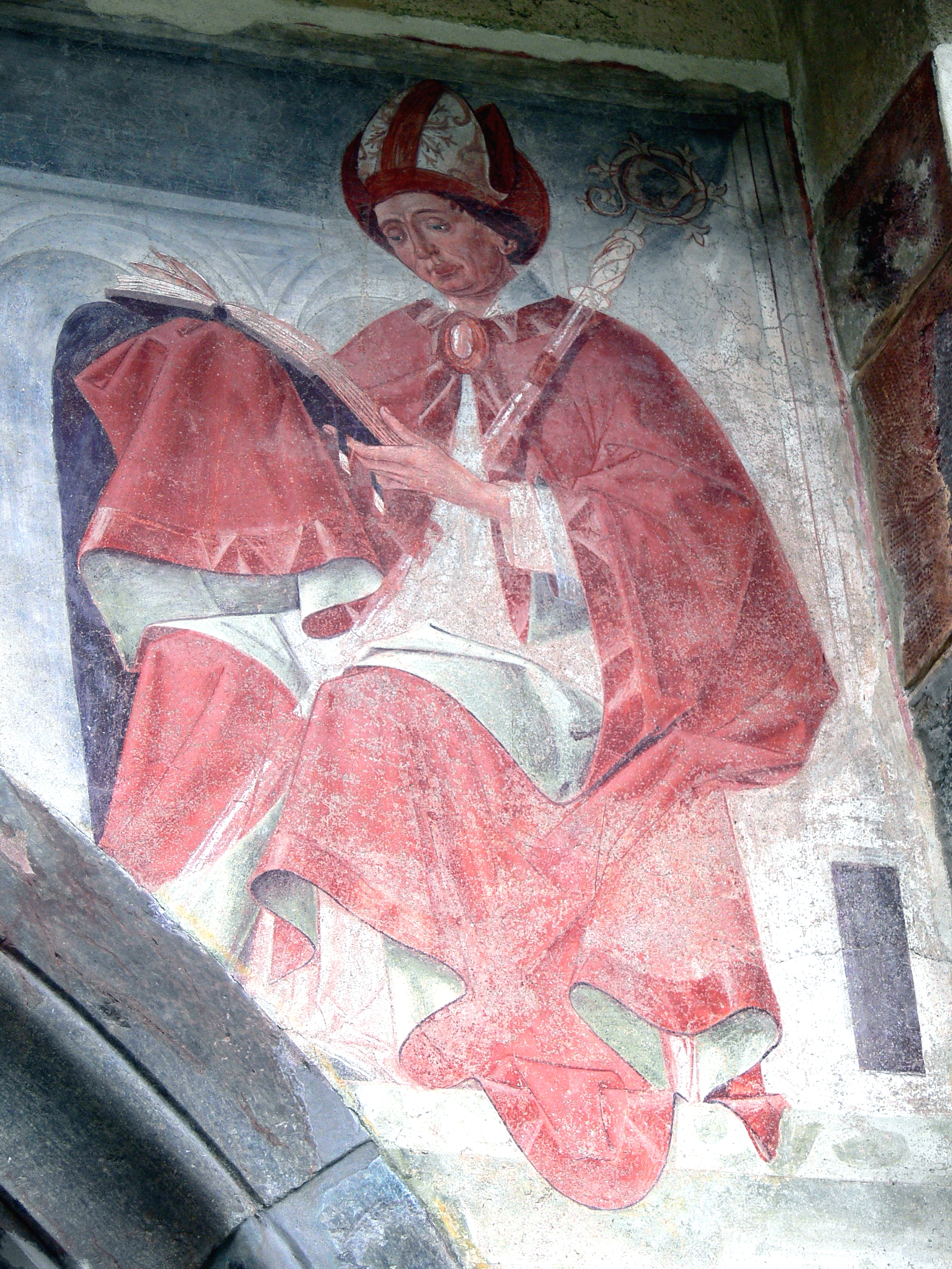 Innichen ( South Tyrol ). Monastery church: Romanesque southern portal - Fresco of Saint Candidus by Michael Pacher ( 1520 )